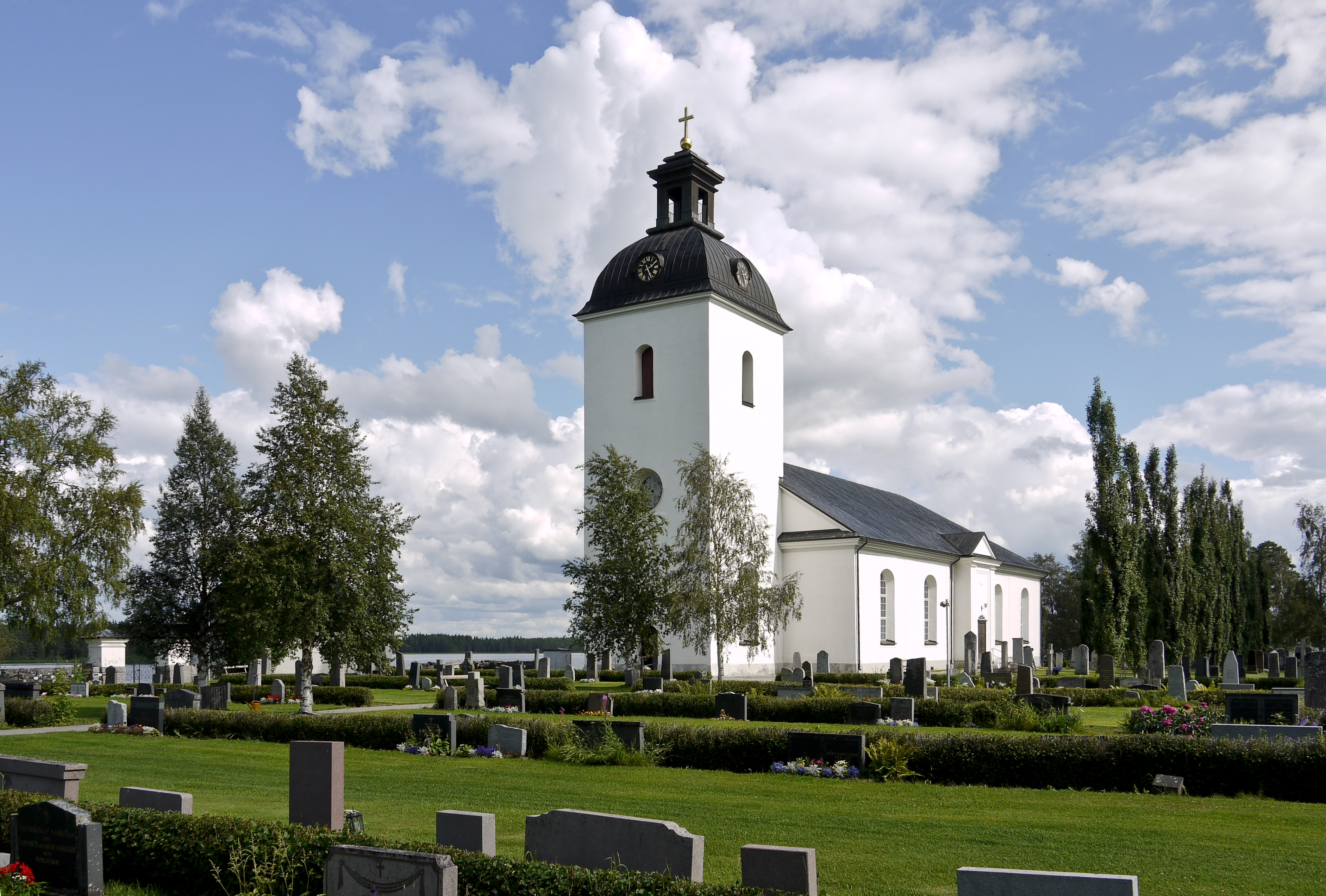 Hammerdal church. Diocese of Härnösand. Strömsund. Sweden. View.